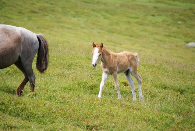 A young Welsh pony It looked like both parents were nearby, but it stayed much closer to its mother.